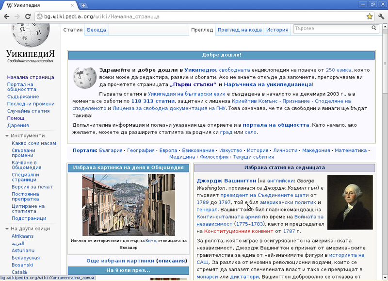 SWRiron 12.0.750.0 in Debian